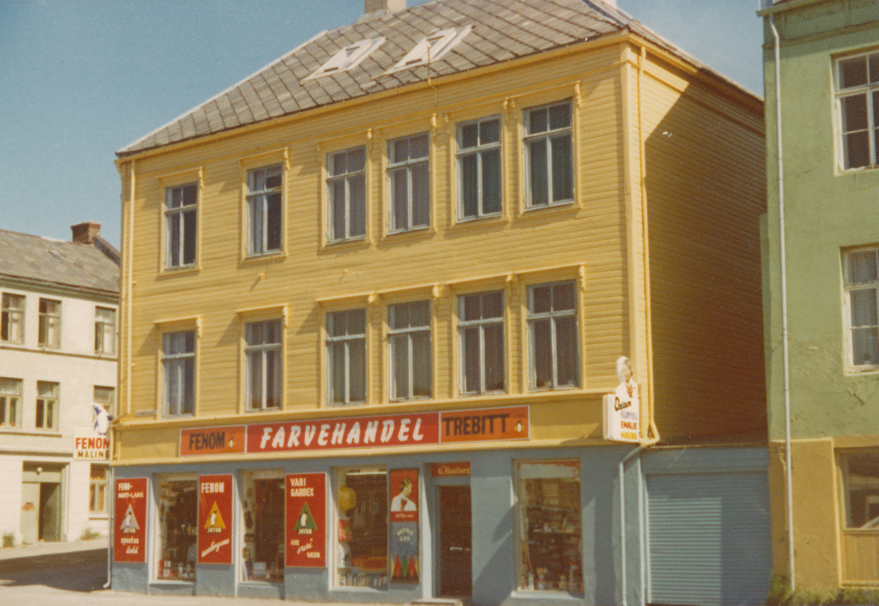 Format: Fotopositiv Dato / Date: Ukjent Fotograf / Photographer: Ukjent Sted / Place: Strandveien / Gregus gate, Trondheim Eier / Owner Institution: Trondheim byarkiv, The Municipal Archives of Trondheim Arkivreferanse / Archive reference: Tor.H40.B19.F1363 [T1162]